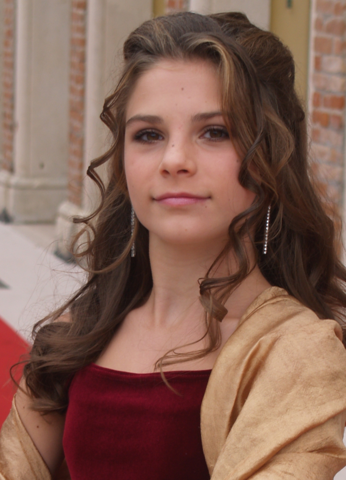 Tehilla at the premiere of Beyond (Svinalängorna) at the 67th Venice Film Festival